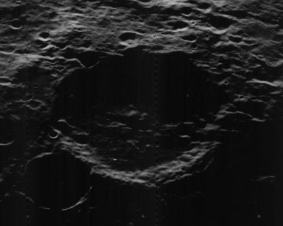 Oblique view of Mendel, on the far side of the moon, facing west.